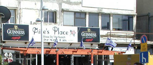 This is a File made by User:Chrissyboi of Mike's Place, Tel Aviv, Israel, several days after it was the subject of a suicide bombing attack in April 2003. I release this image into the Public Domain. If you would like to use this image, a linkback to this page at WikiPedia would be appreciated.